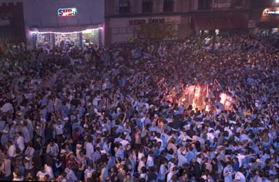 Celebration on Franklin Street, Chapel Hill after a North Carolina basketball victory over Duke.